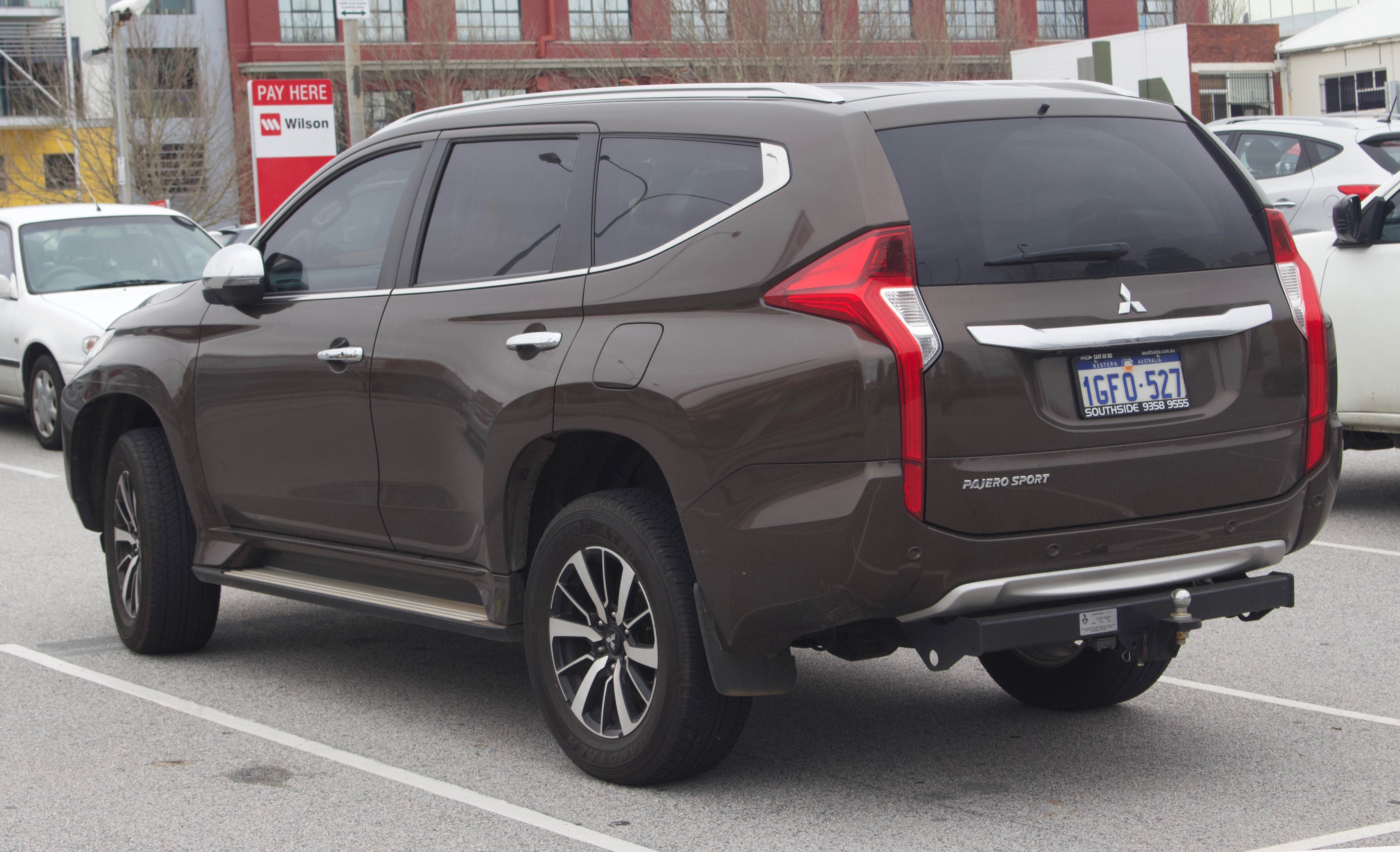 2017 Mitsubishi Pajero Sport (QE) GLS wagon. This is the GLS due to the absence of headlight washers. Photographed in Fremantle, Western Australia, Australia.